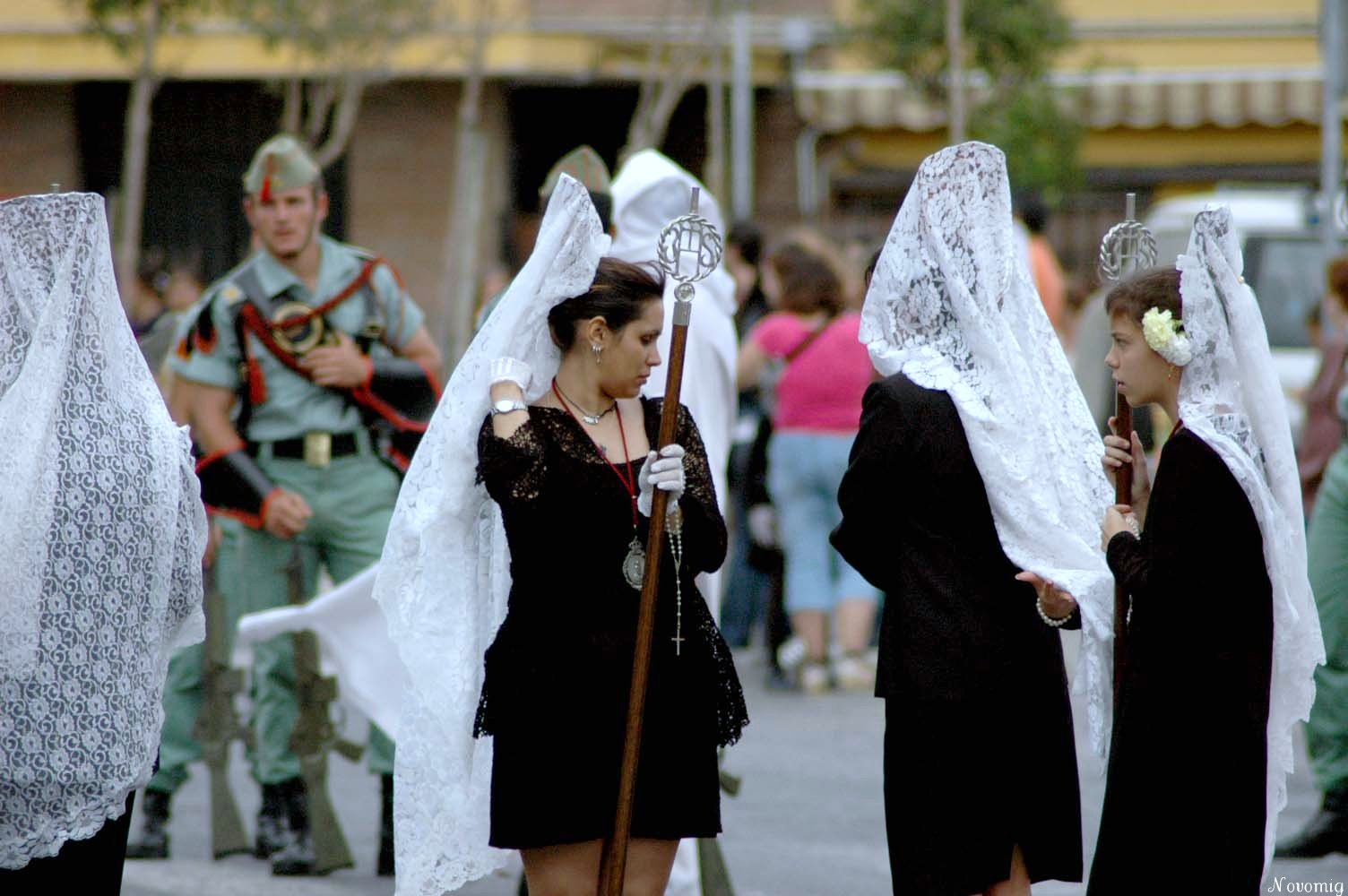 Holy Week in Melilla Spain.